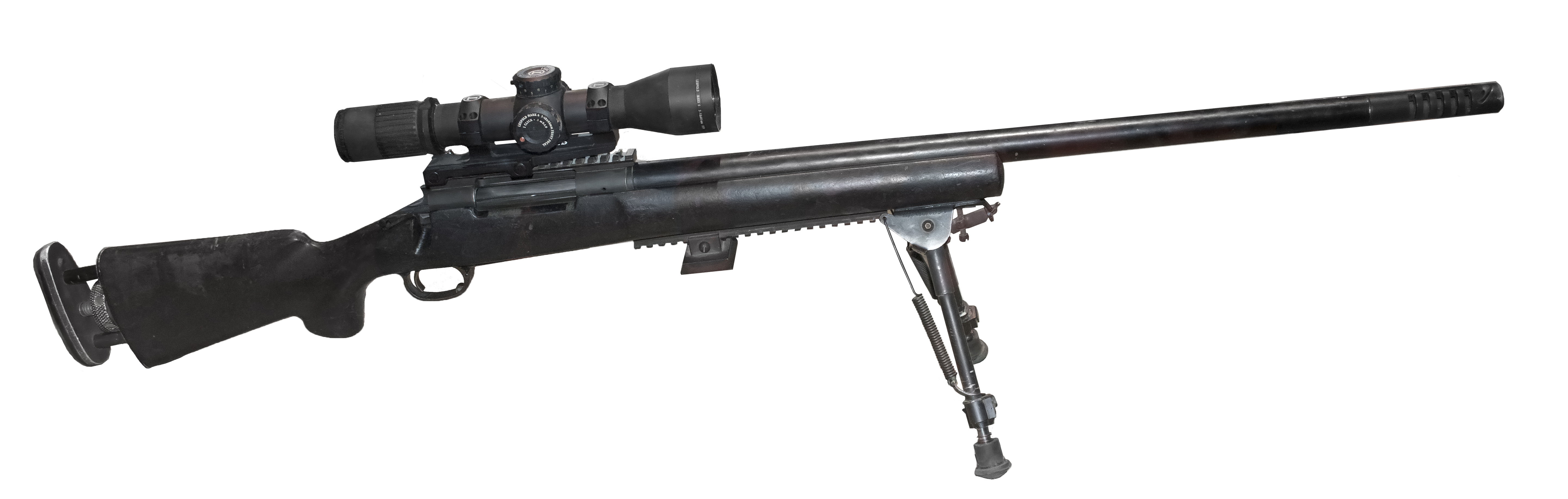 Remington M24 SWS with Leupold Mark 6 scope sight and bipod, Our IDF 70, Israel